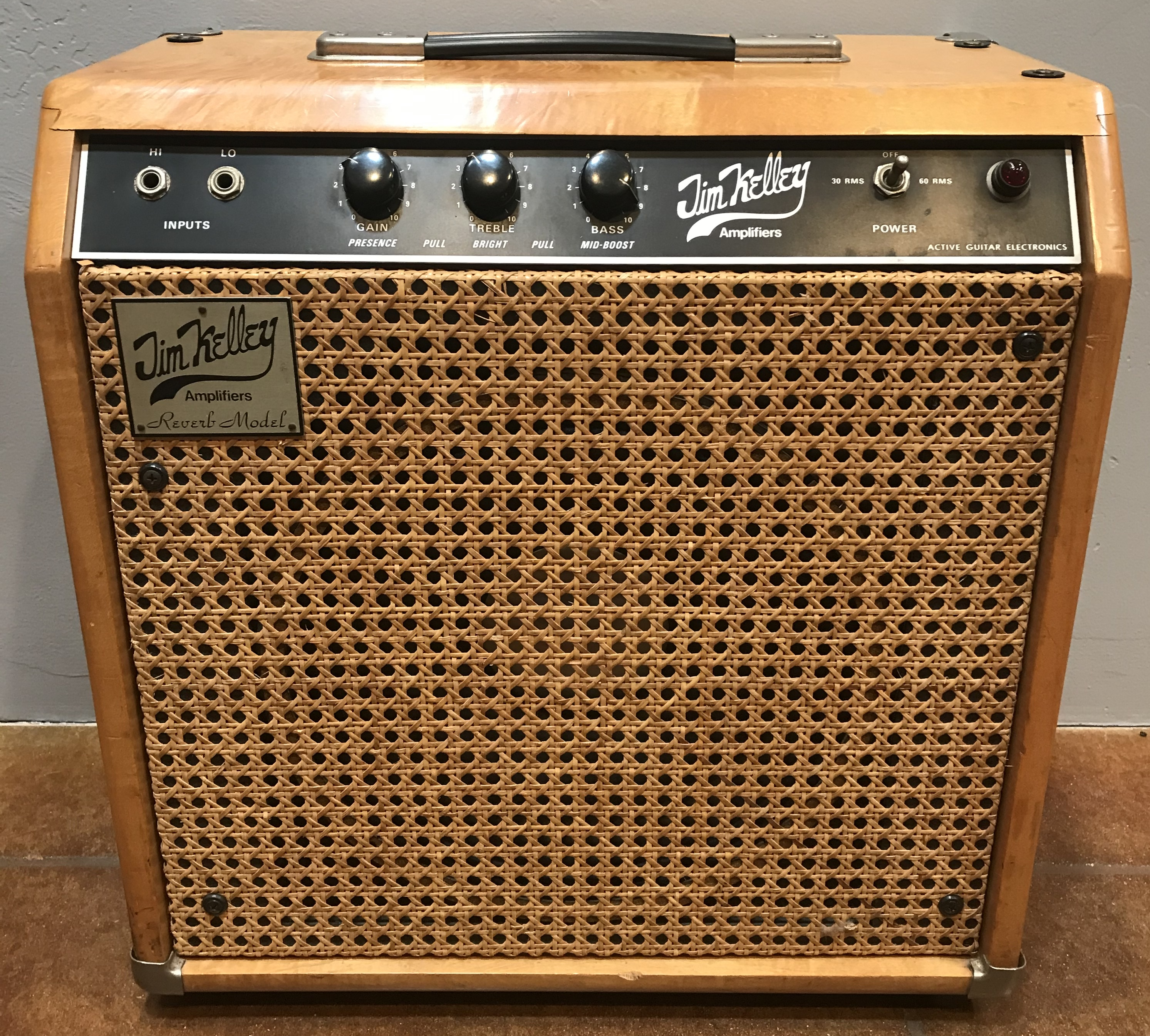 1984 Jim Kelley Single Channel Reverb Model in maple with JBL speaker